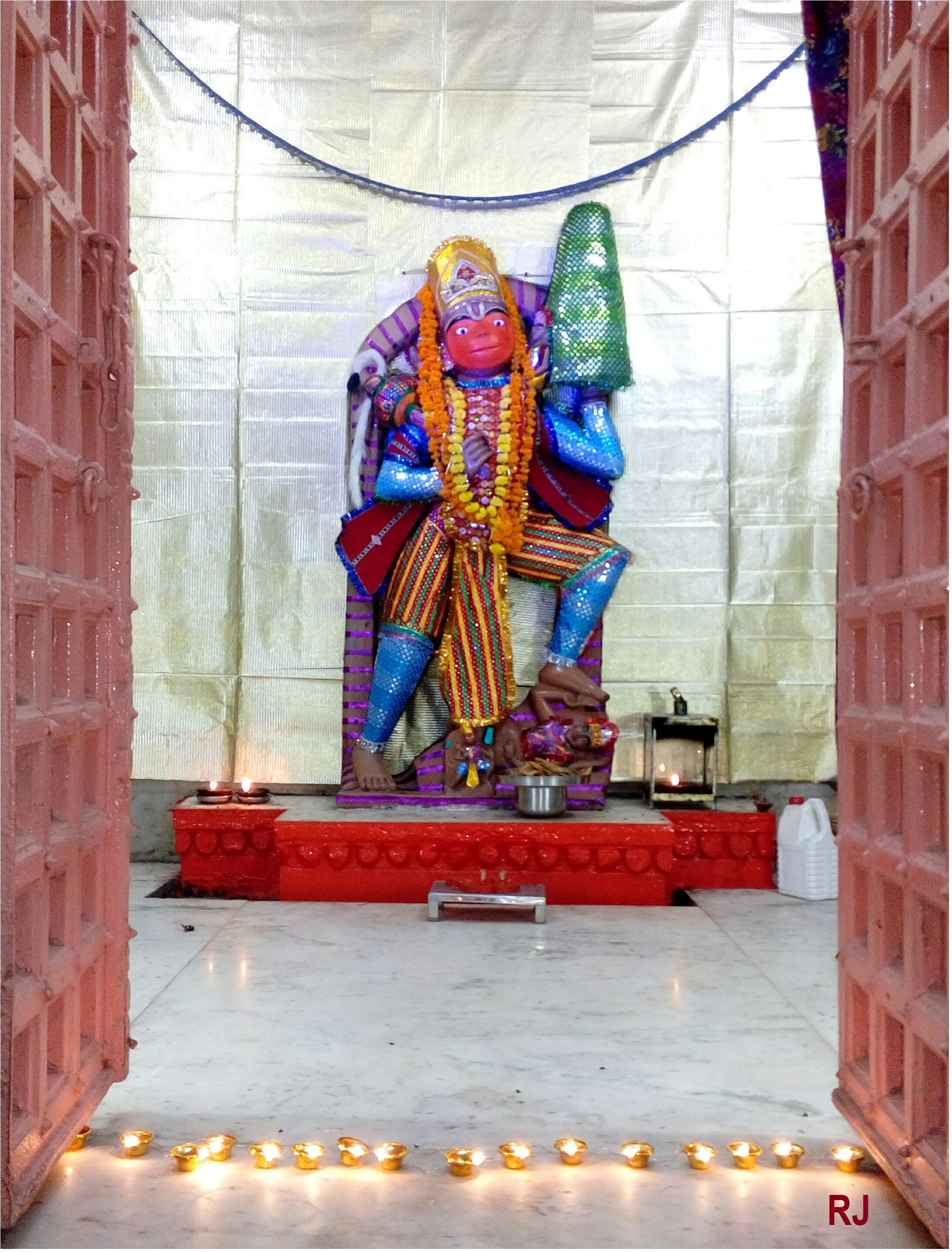 Hindu temple